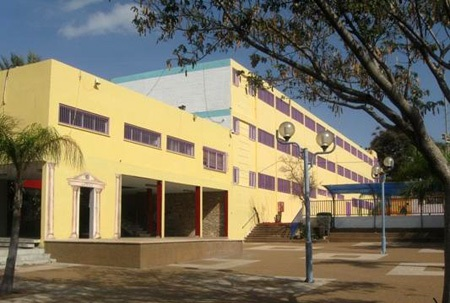 amal collage taybe